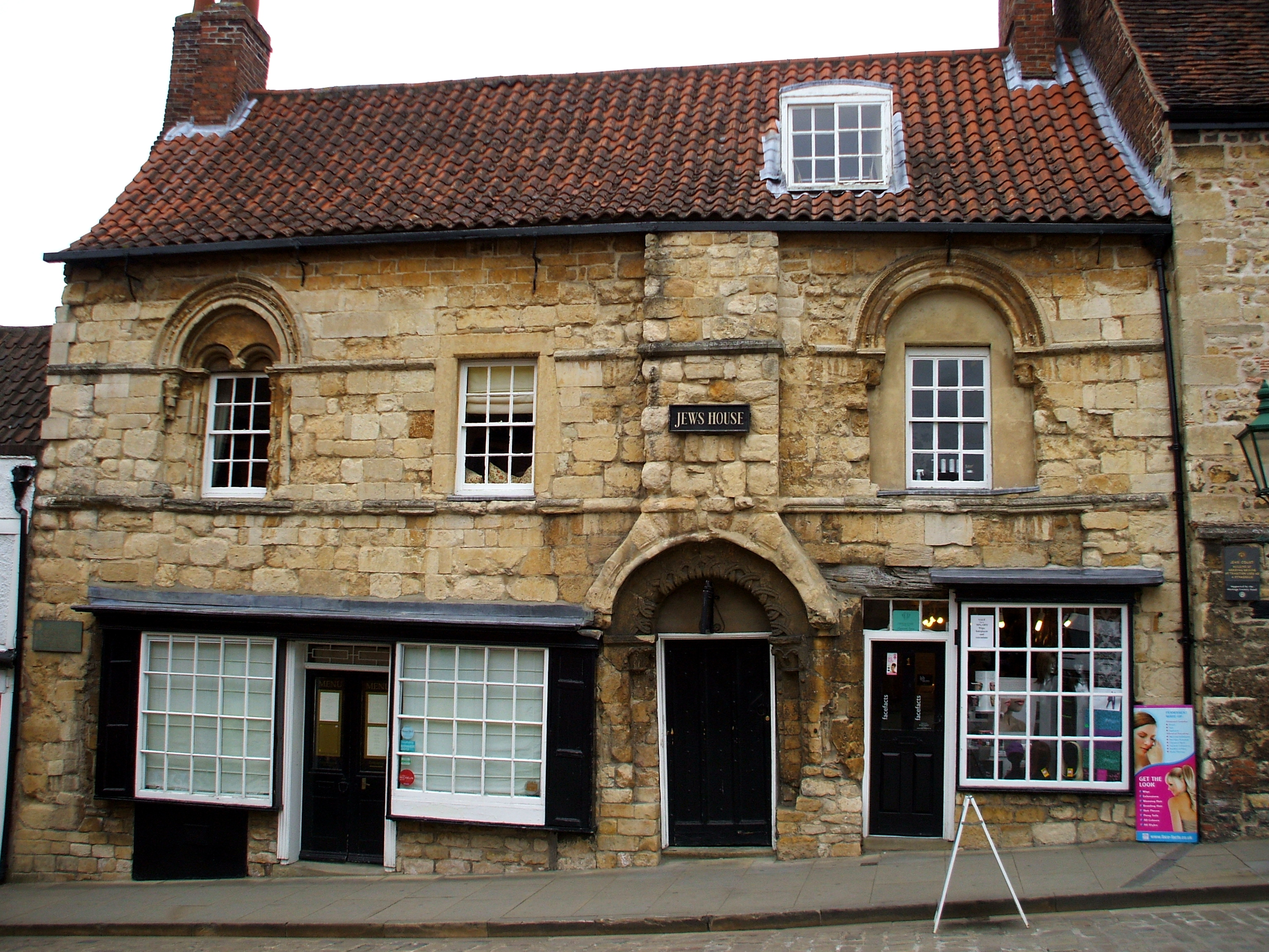 Jew's House, Lincoln. One of the two oldest houses in Lincoln, and one of only a handful of Norman houses in the UK, the Jew's House dates from the late 12th century - now home to a restaurant.